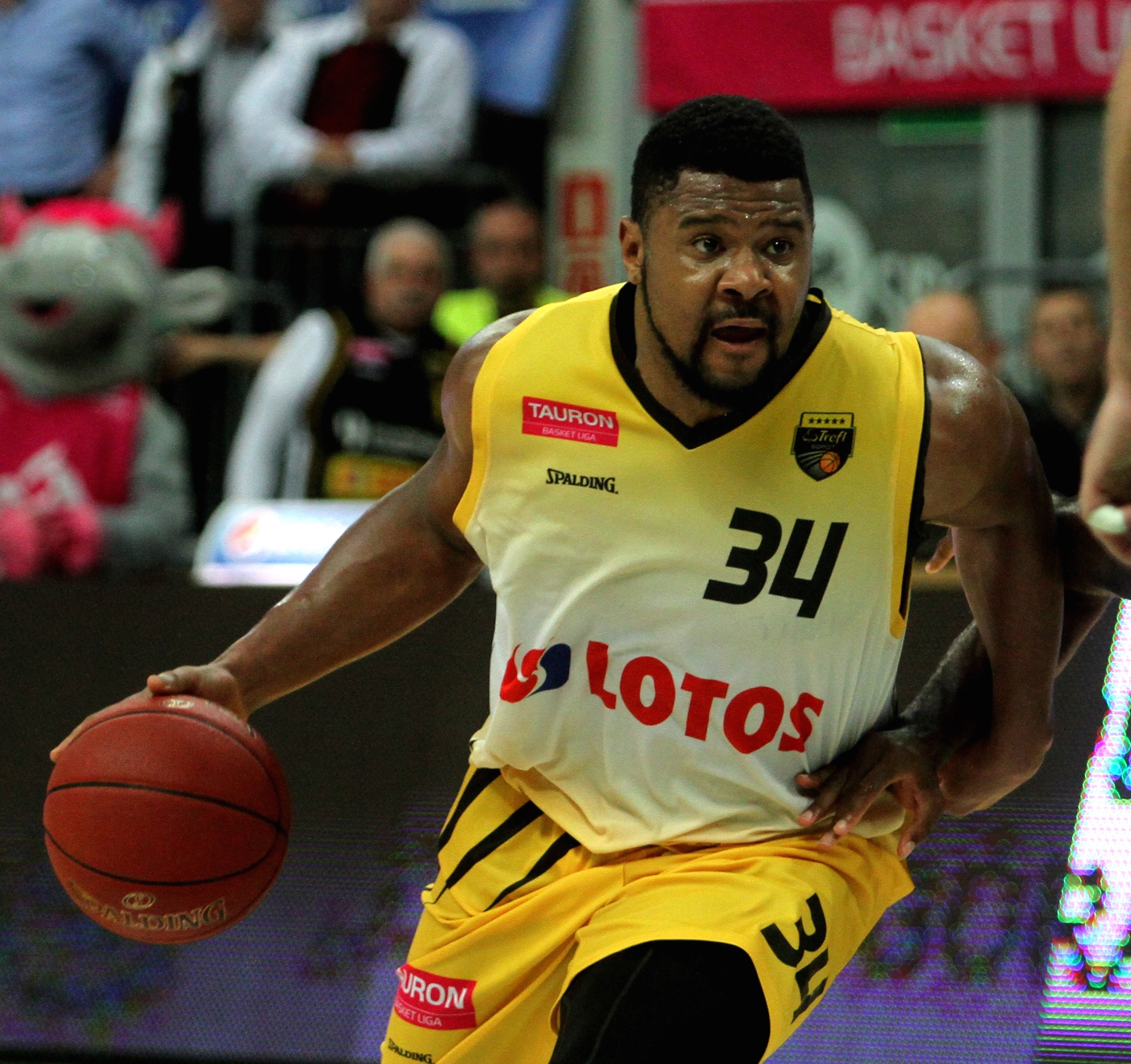 Lance Jeter, playing for Trefl Sopot in a PLK game.